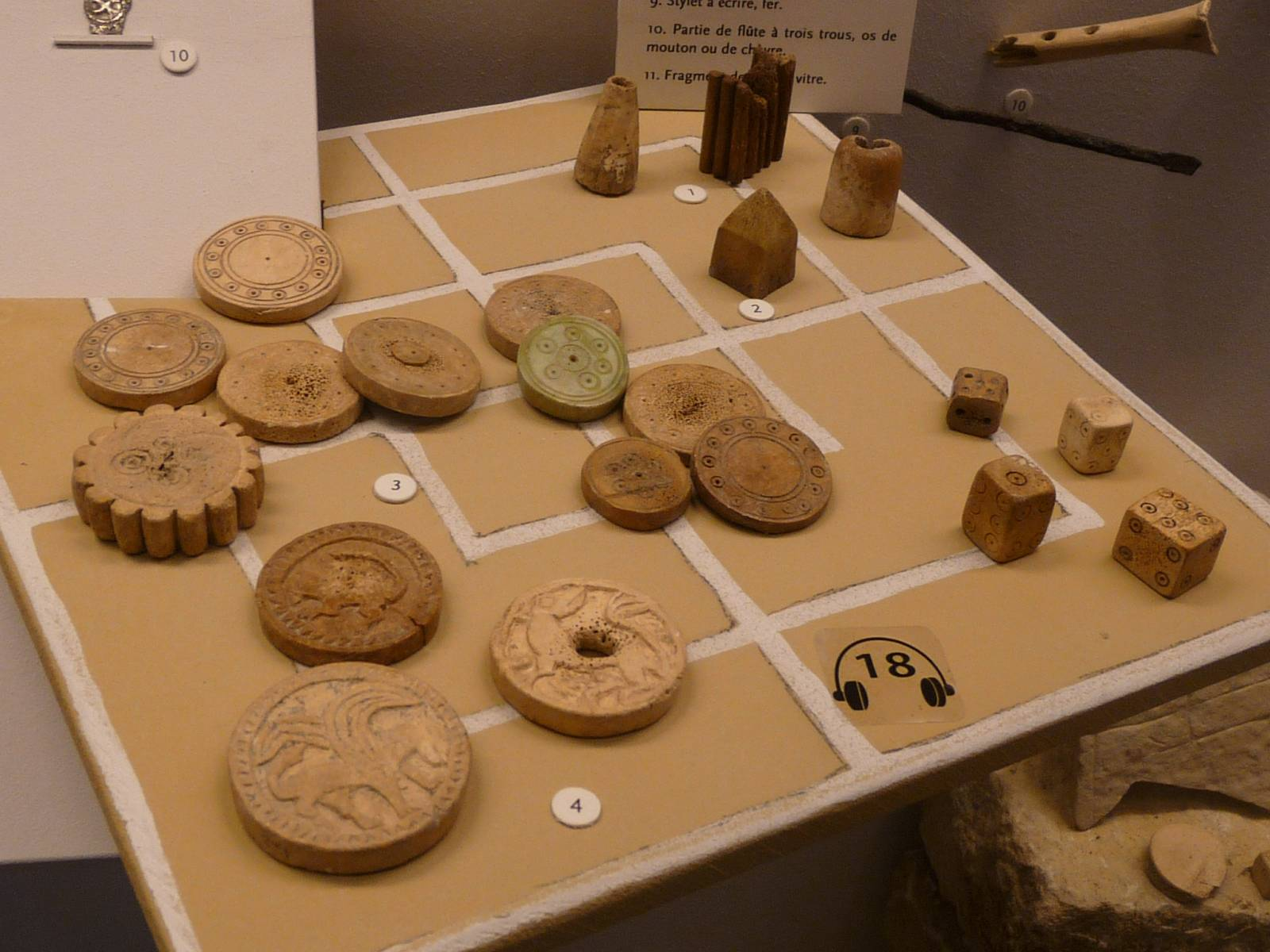 game medieval pieces, 10th century, found in castrum of Andone. Museum of Angoulême, France